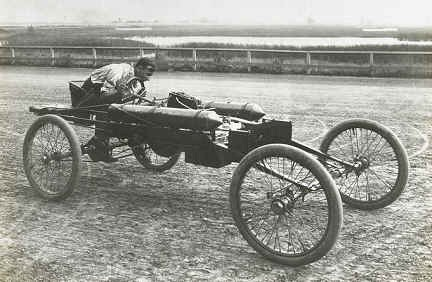 Very successfull Oldsmobile Pirate racer derived from Curved Dash components, 1903.